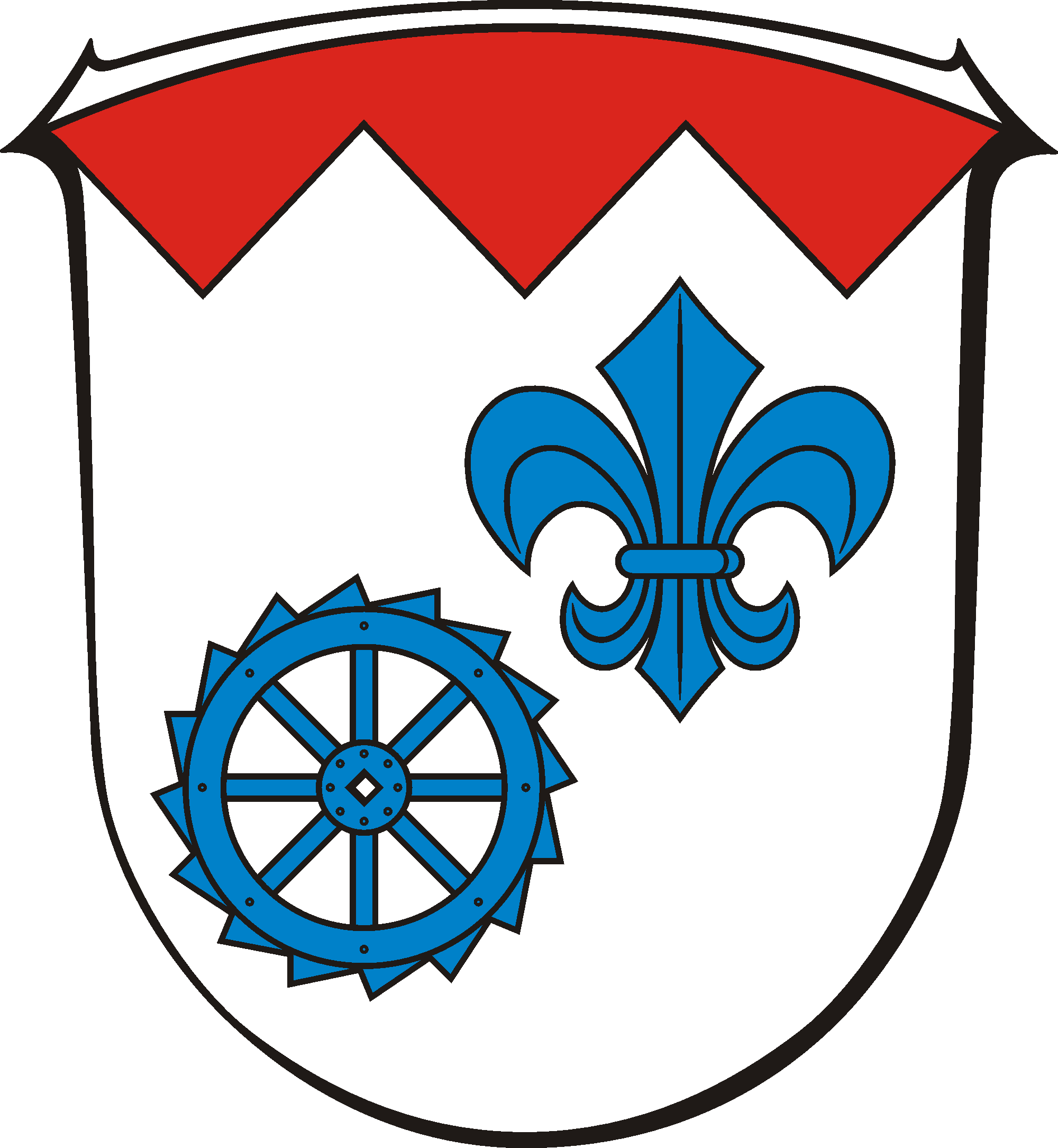 Coat of Arms of Heuchelheim